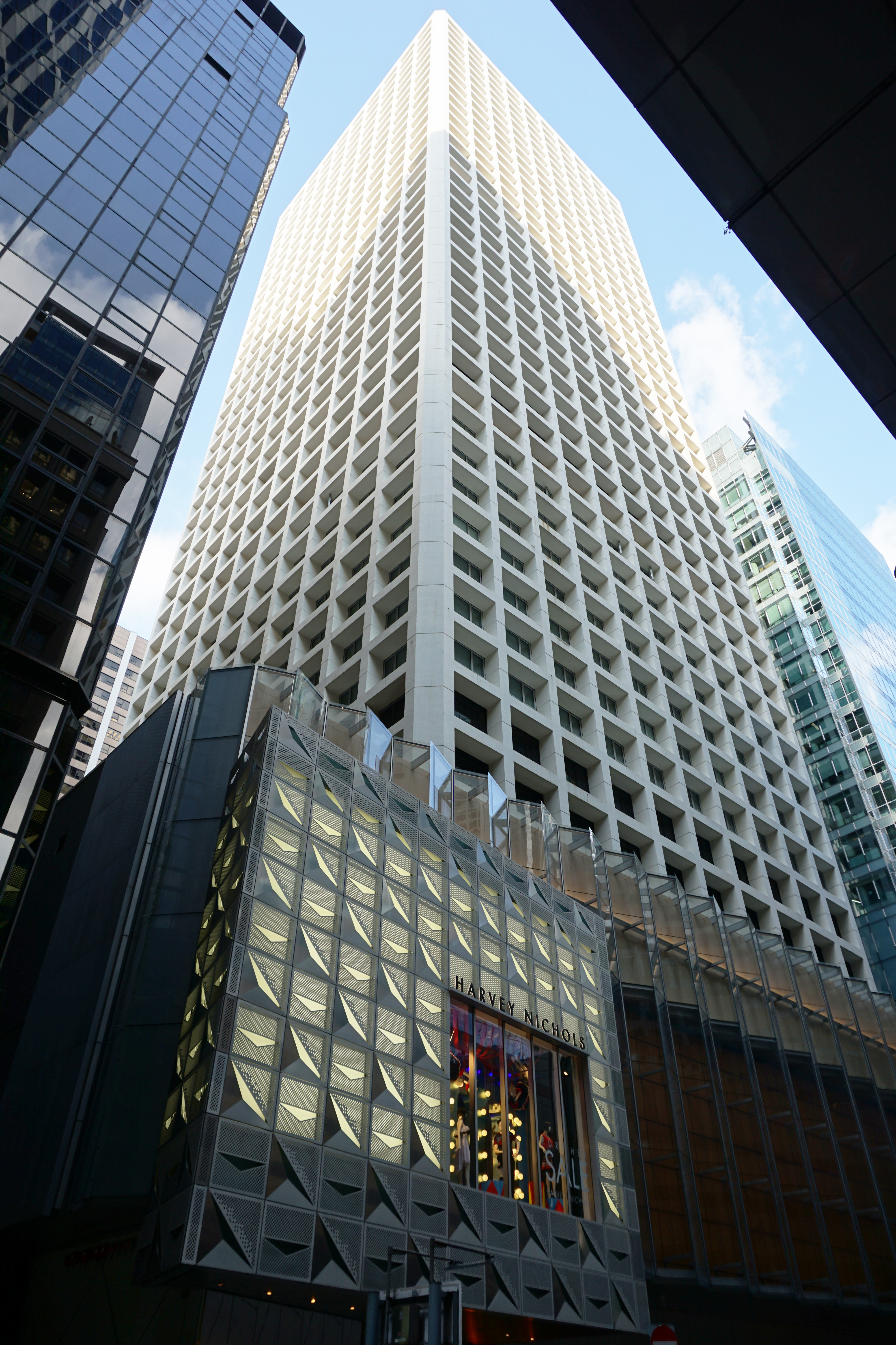 Edinburgh Tower in Central, Hong Kong.